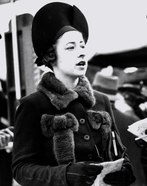 Margery Foll at Doomben Racecourse, Brisbane, 1940